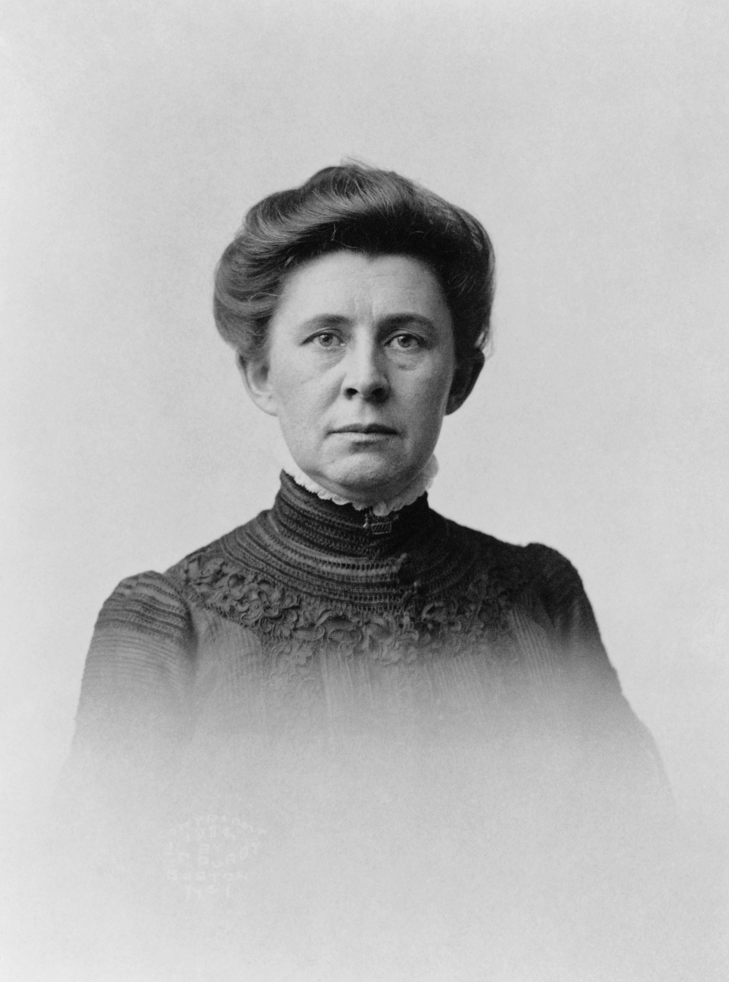 Ida M. Tarbell (1857-1944), head-and-shoulders portrait, facing front.